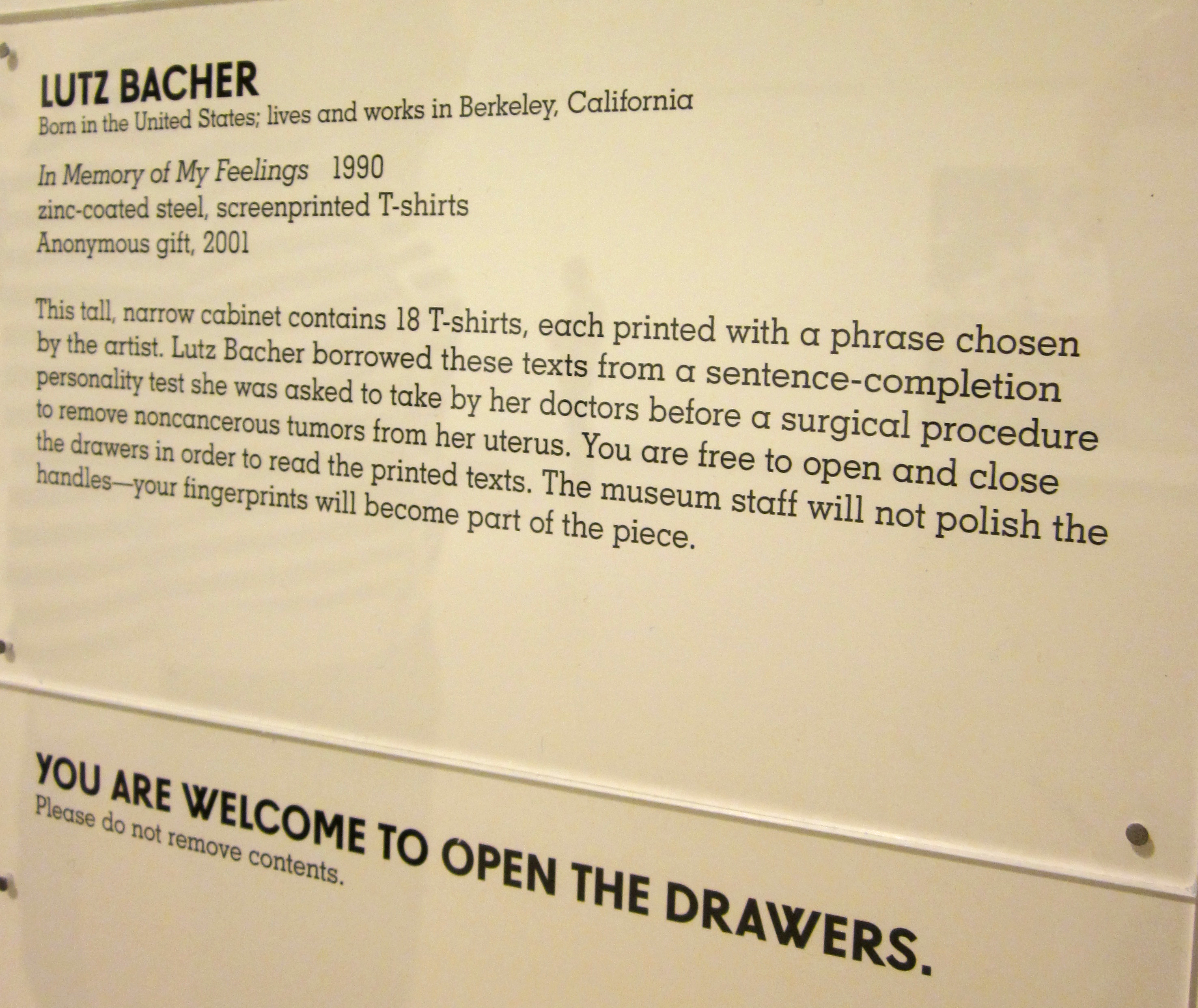 Description of 'In Memory of My Feelings' by the artist Lutz Bacher at the Walker Art Center.